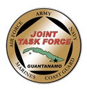 The crest/seal Joint Task Force Guantanamo. Source: USSOUTHCOM Public Affairs.